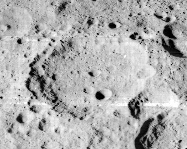 Oblique view of Anderson, on the far side of the moon. North at top.